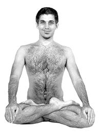 Man variation for Padmásana